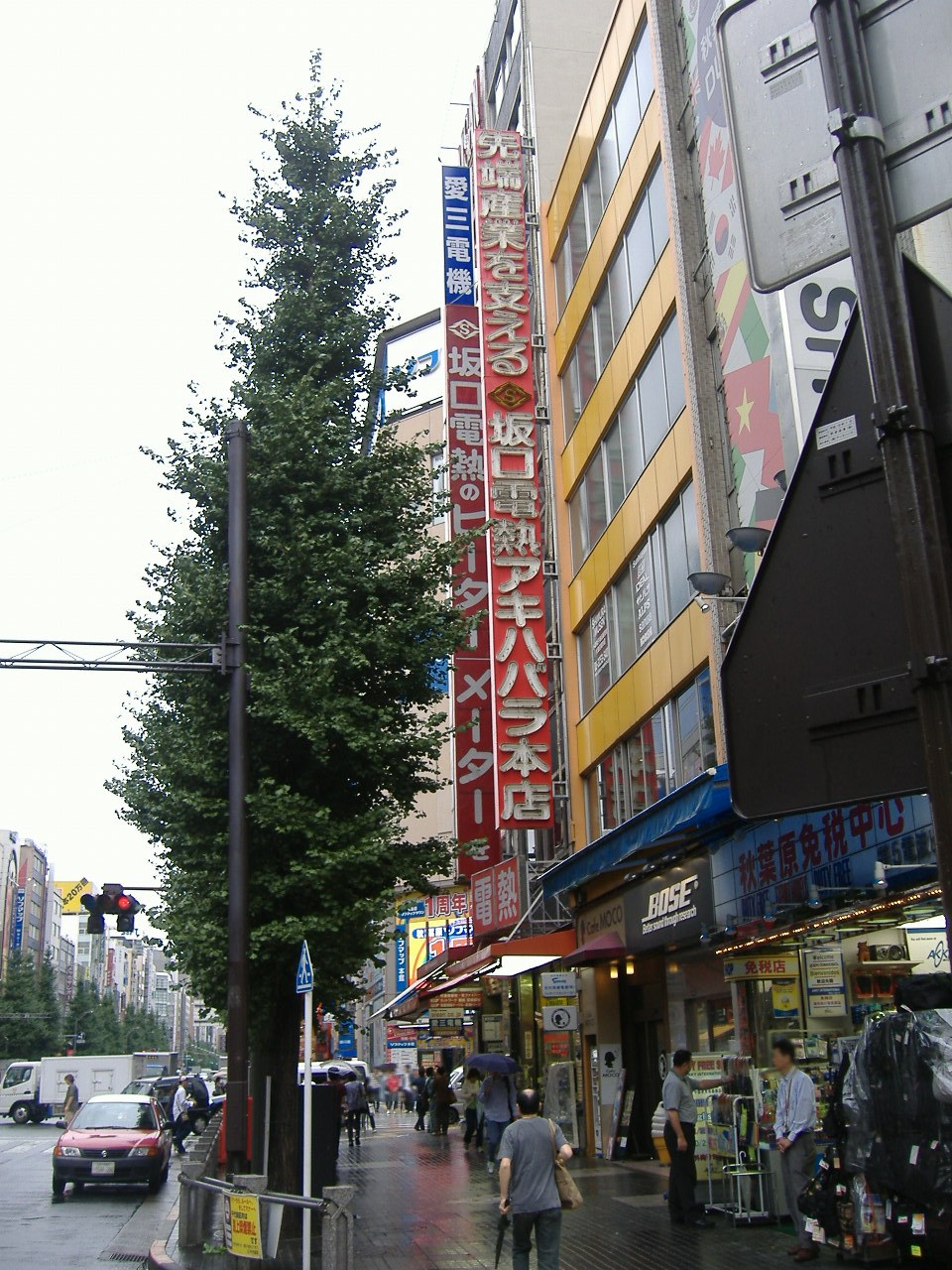 Electric heater shop "Sakaguchi Dennetsu"(Akihabara, Japan)